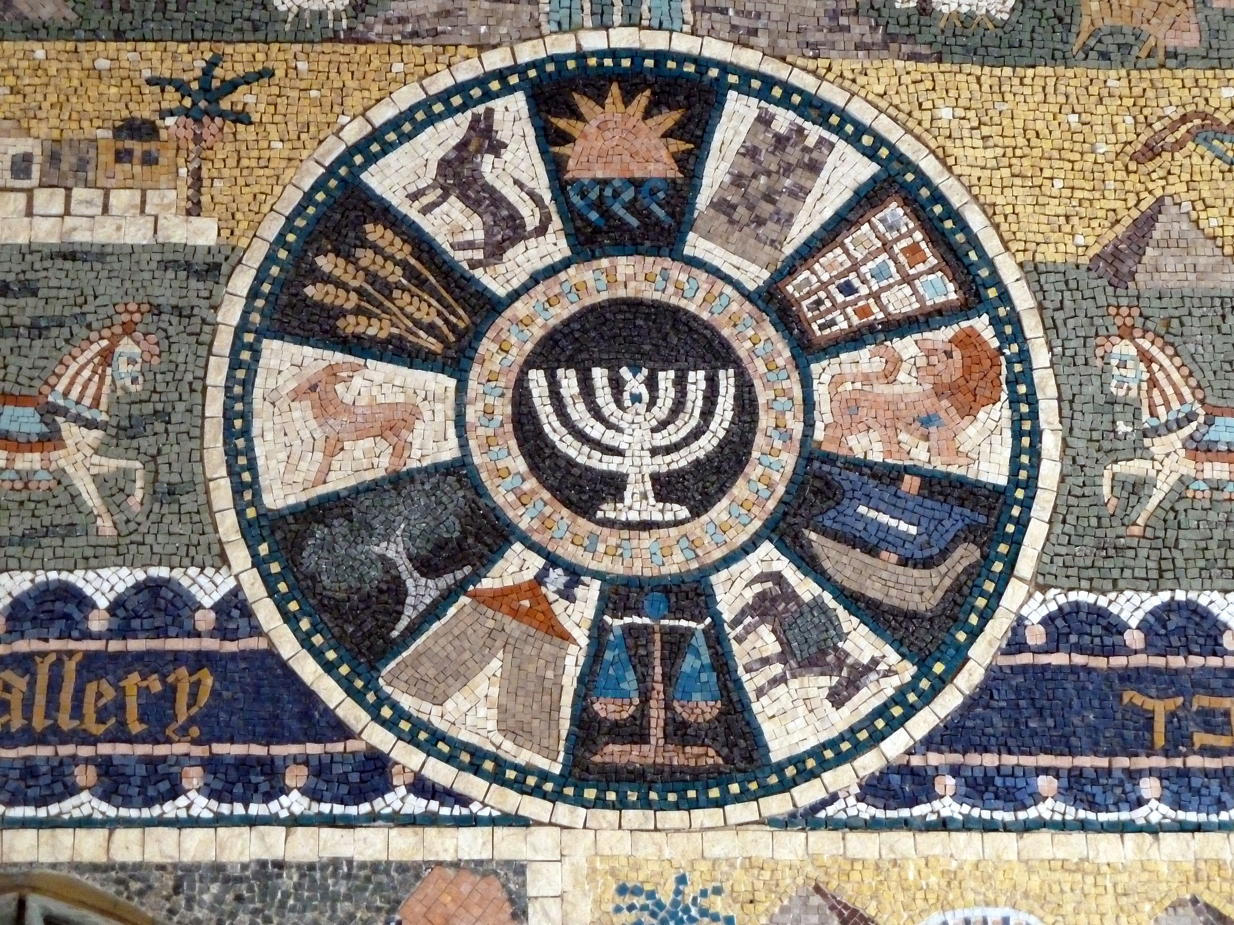 Old Jerusalem Jewish Quarter, street Mosaic of symbols of the 12 tribes of ancient Israel